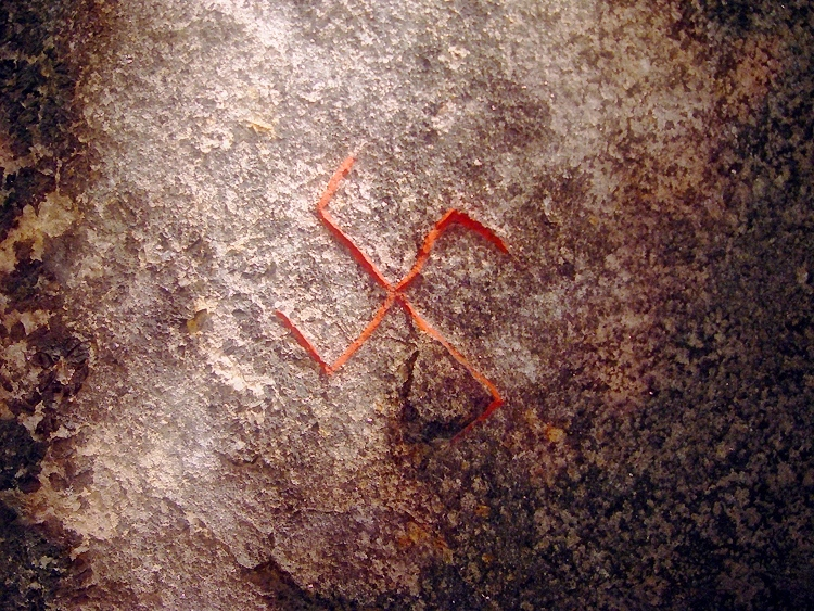 A photograph of the swastika on the Snoldelev stone in the National Museum in Copenhagen, Denmark.